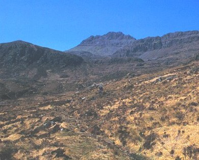 Askival, Rùm's highest peak, from the Dibidil-Kinloch path. Approaching the Allt na h-Uamha.